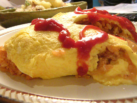 wrap chicken-rice in omulet